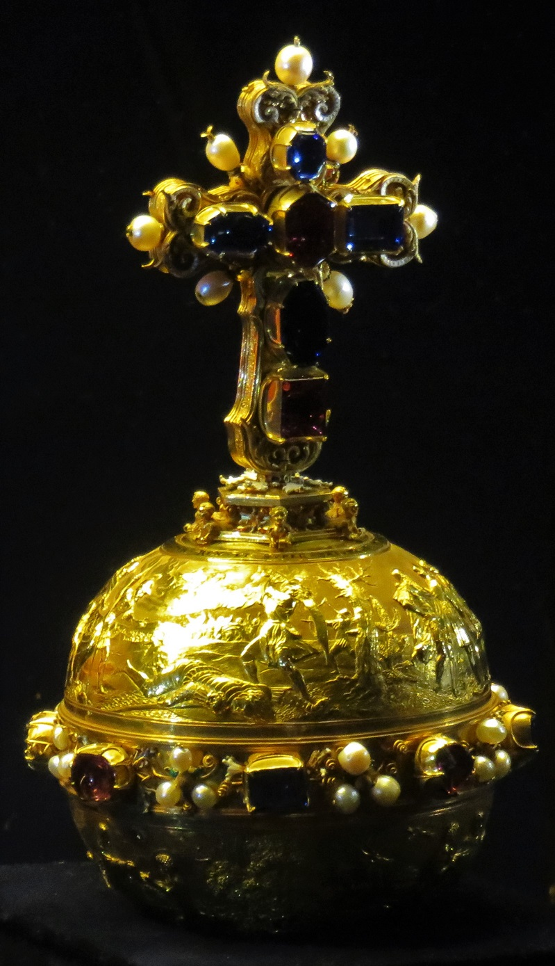 Czech Renaissance Orb from the 1530s.